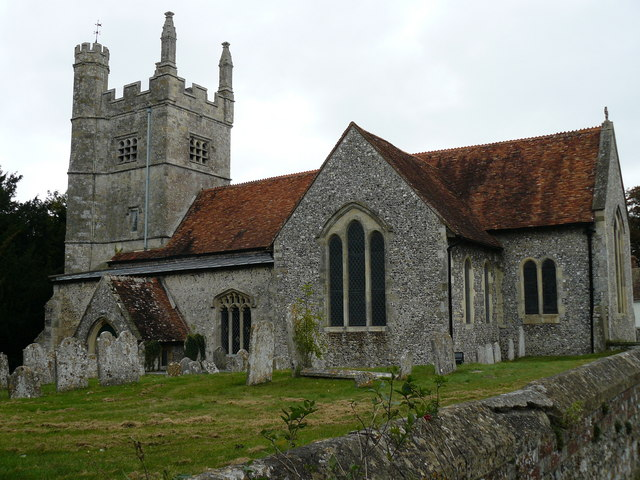 Barton Stacey - All Saints Church The church was used as a shelter for the village people who were made homeless when fire swept through the village in 1792.